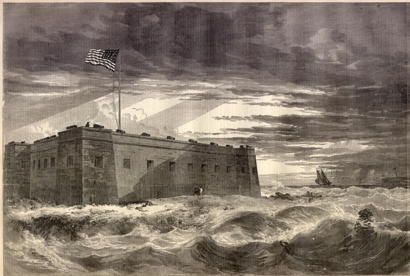 Fort Pickens, Pensacola Harbor, Florida, looking seaward. Fort McRae in the distance. Fom a sketch by mrs. lieutenant Gilman, just arrived from Pensacola.